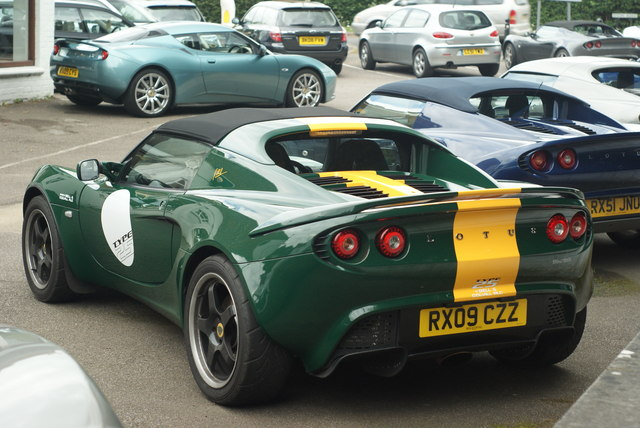 Lotus Elise at Bell & Colvill, West Horsley, Surrey This little supercharged baby has a top speed of 145 mph. Seen here at Bell & Colvill, the UK's longest established Lotus dealership. Painted in British Racing Green, with a yellow stripe, the colours used by the Lotus F1 team until the end of the 1967 season. Announced this month; Lotus to return to F1 in 2010.